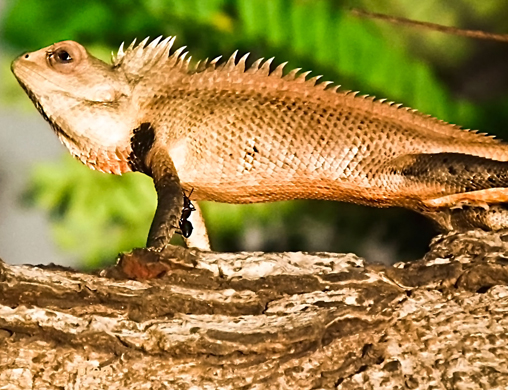 lizard awaiting for a catch,Visakhaptnam city